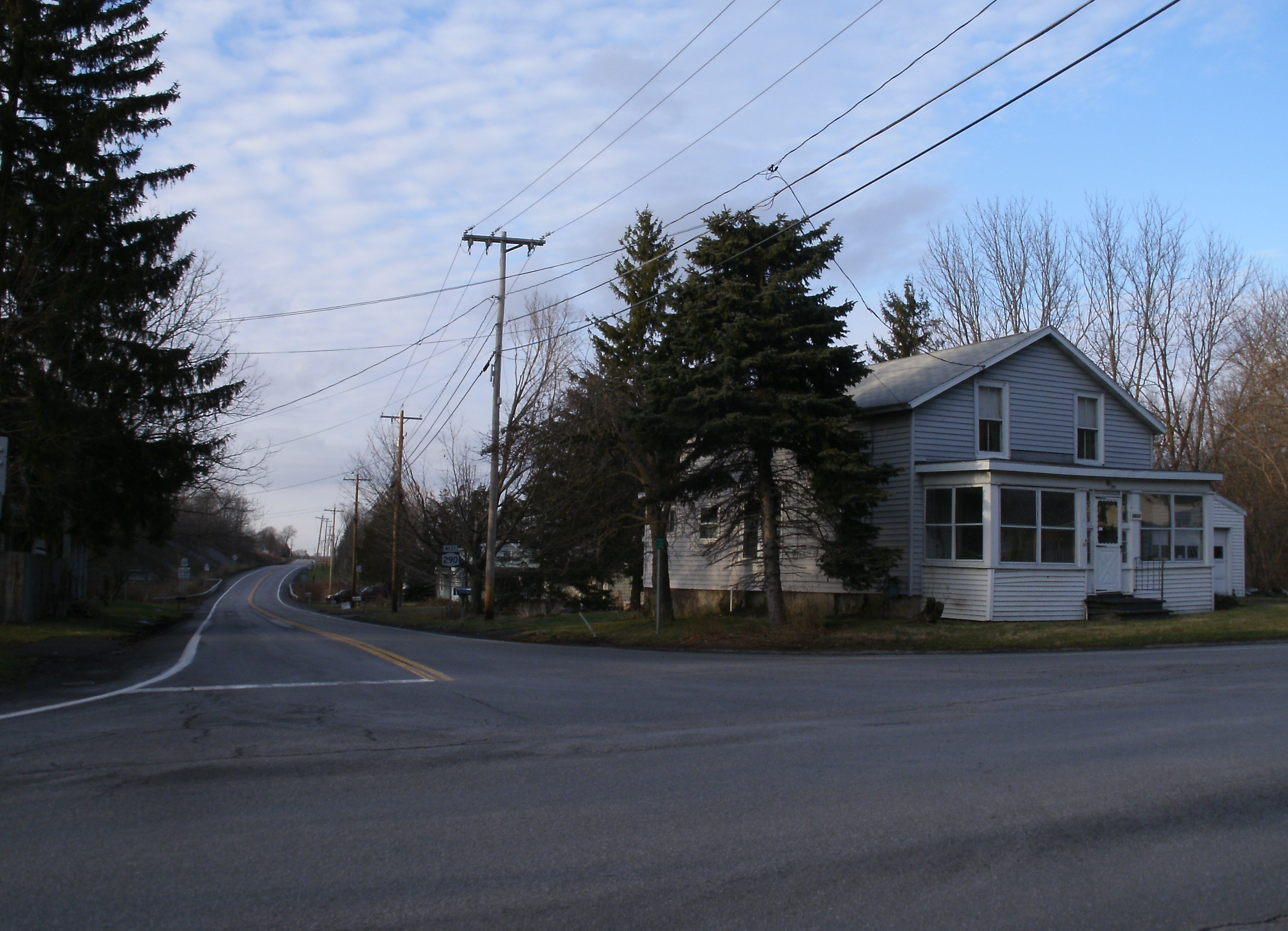 New York State Route 290 stretching away from its eastern terminus at New York State Route 5 in the hamlet of Mycenae.